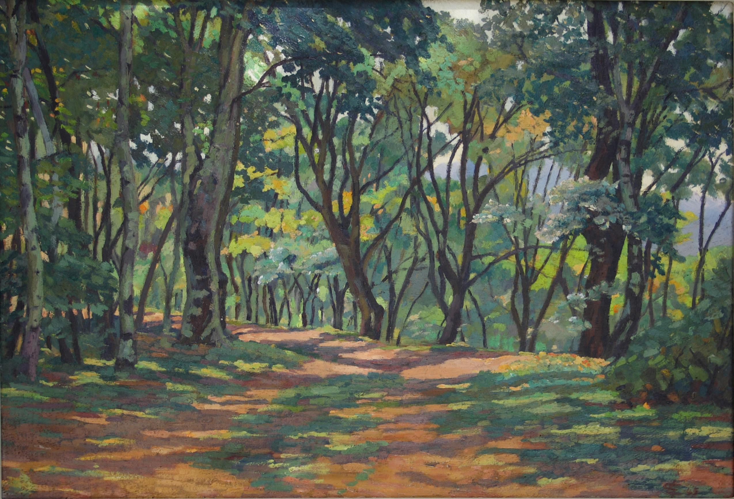 Entrance of the Cougnac property near Gourdon (Lot) by Georges Emile Lebacq.